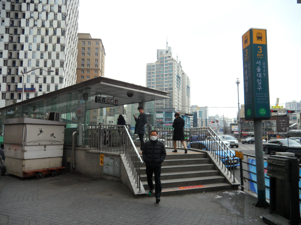 Exit of Seoul National University Station